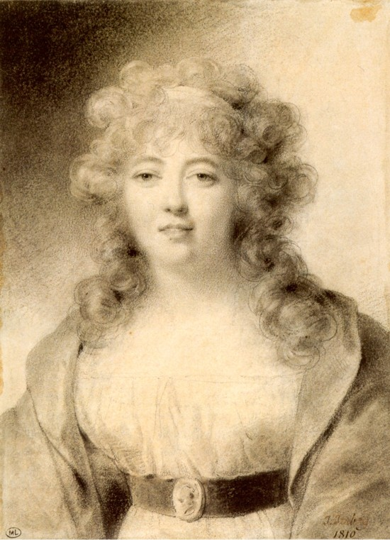 Madame de Stael 1766-1817